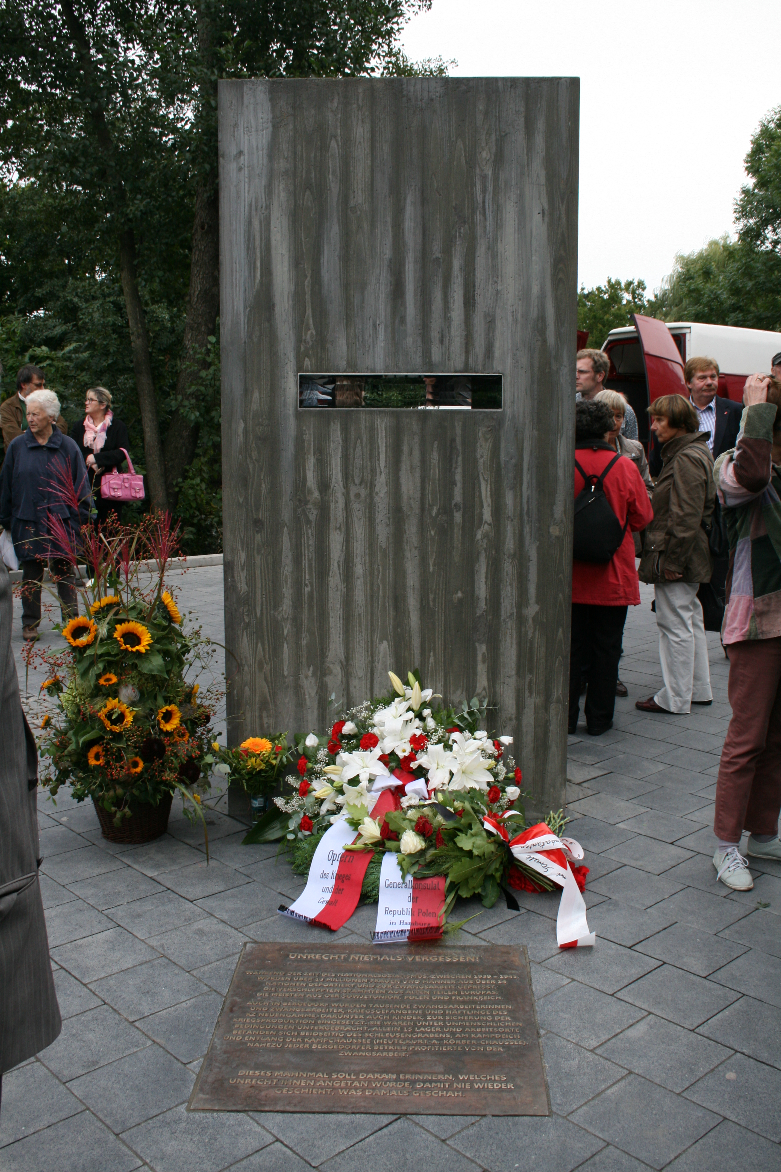 The memorial for the Forced labour under German rule during World War II in Hamburg-Bergedorf